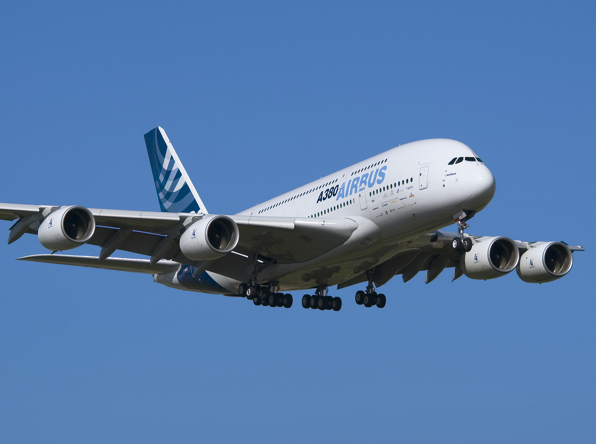 Airbus A380 F-WWEA MSN009 landing on its first visit to the Airbus factory at Getafe (LEGT). Note the Engine Alliance logo on the engines. This is the first GP7000-powered A380. You can contribute by translating this description into more languages.